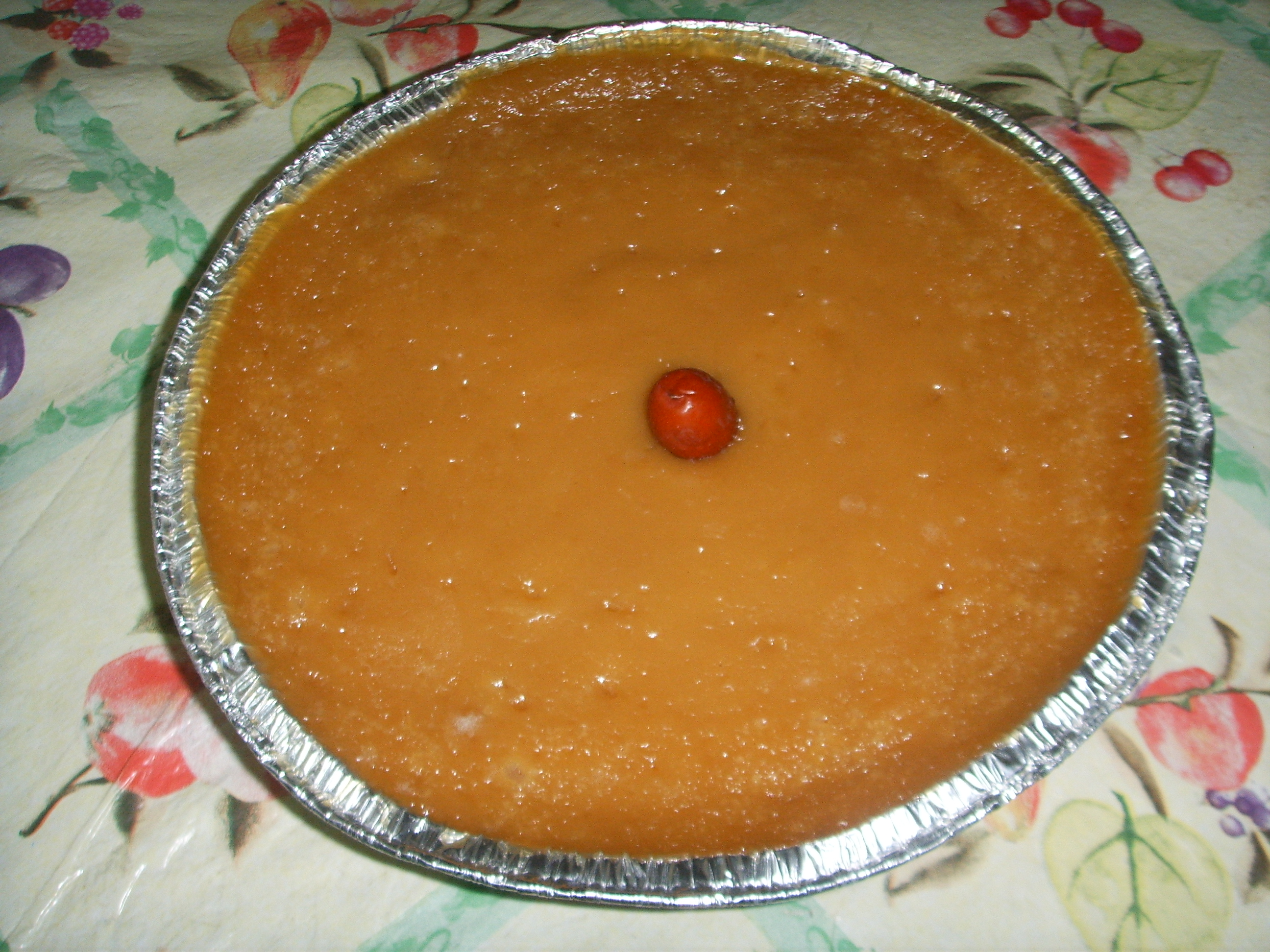 Guangdong Nianguo